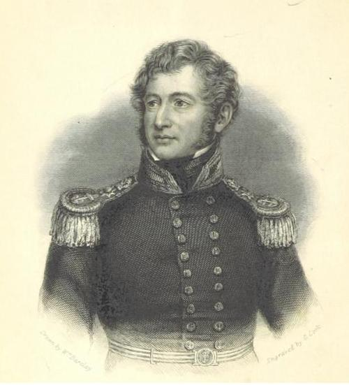 Portrait of William Allen (1792–1864), English naval officer, from A narrative of the expedition sent by Her Majesty's Government to the River Niger in 1841 under the command of Captain H.D. Trotter (1848).